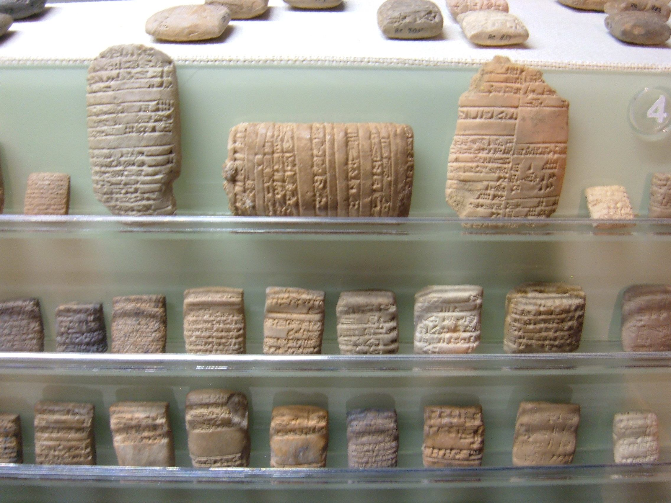 Various ancient Mesopotamian clay tablets, mostly receipts and tax records (various time periods) on display at the Rosicrucian Egyptian Museum in San Jose, California.